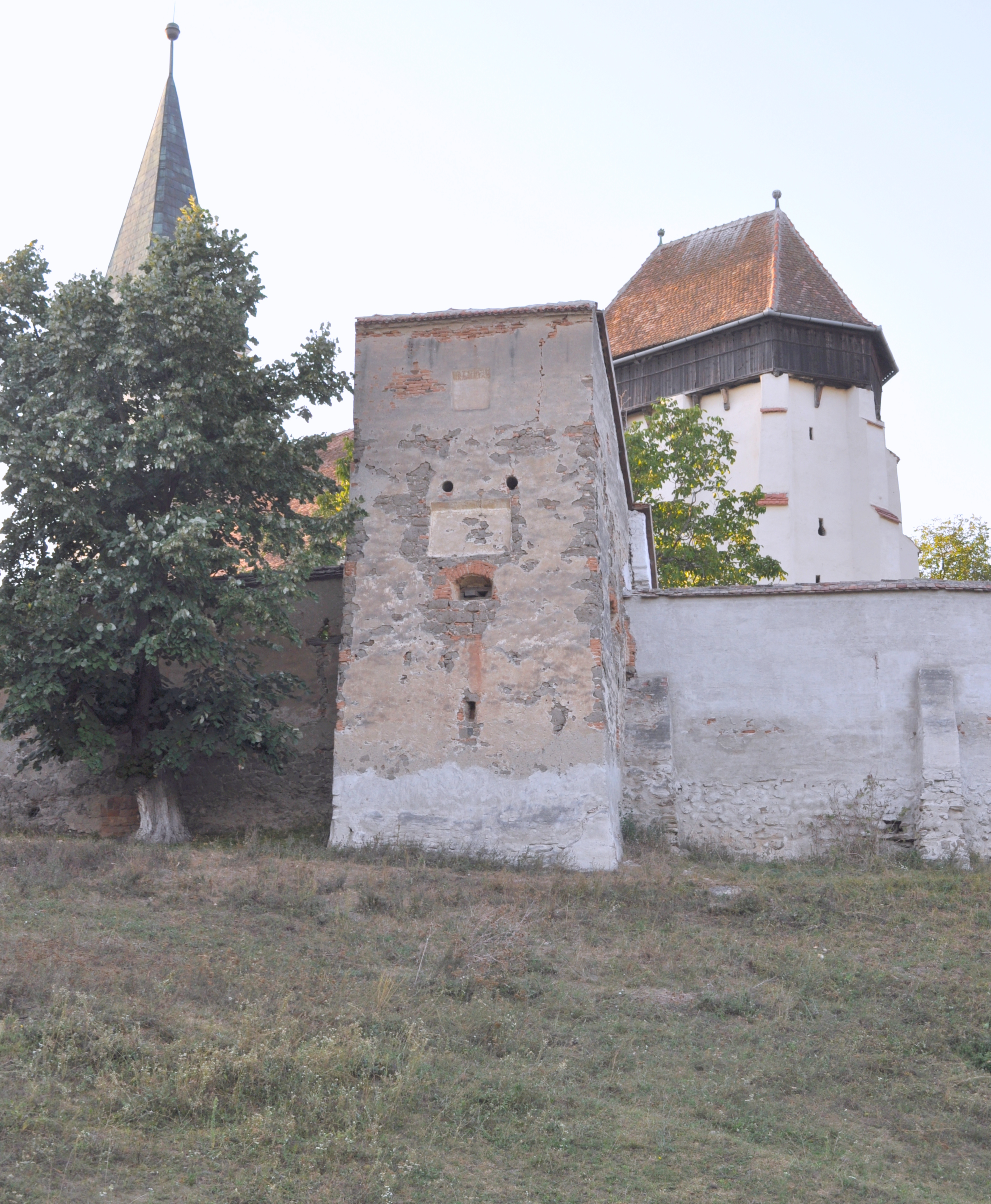 fortified church of Bălcaciu, Alba County, Transylvania.